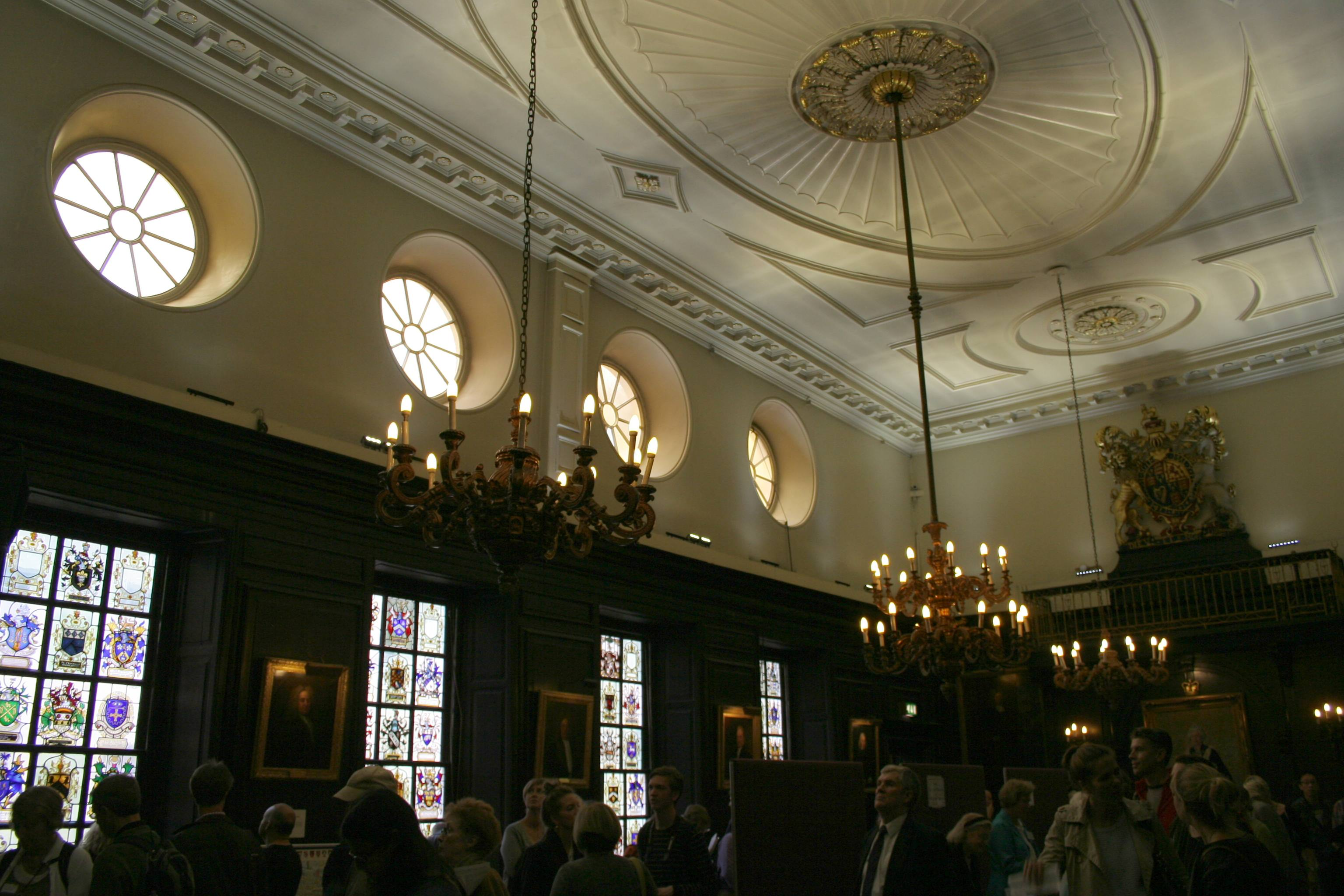 The Great Hall of the Apothecaries' Hall in Blackfriars, London in September 2013.